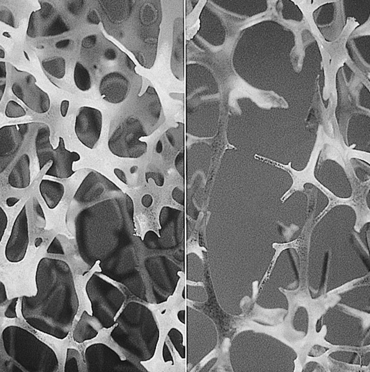 Bone normal and degraded micro architecture